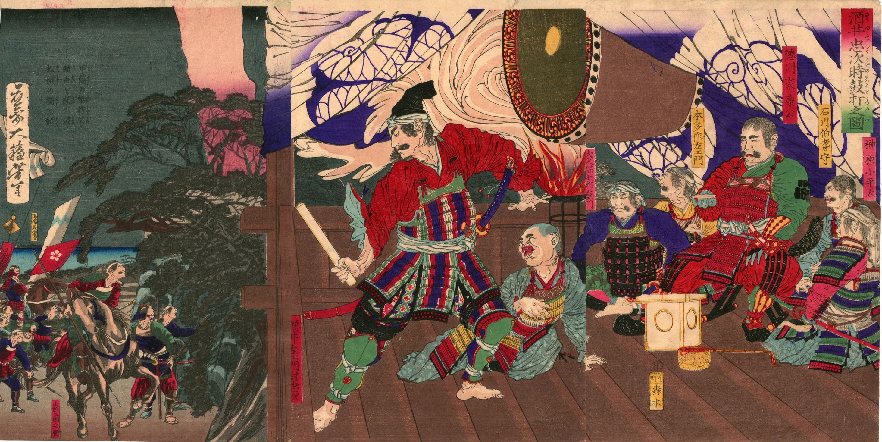 An ukiyo-e of Sakai Tadatsugu who beats a drum in the Battle of Mikatagahara.